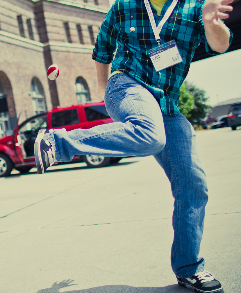 Photo by Malone & Company Photography Big Omaha attendee Will Flavell busts out his hacky sack during the lunch hour.